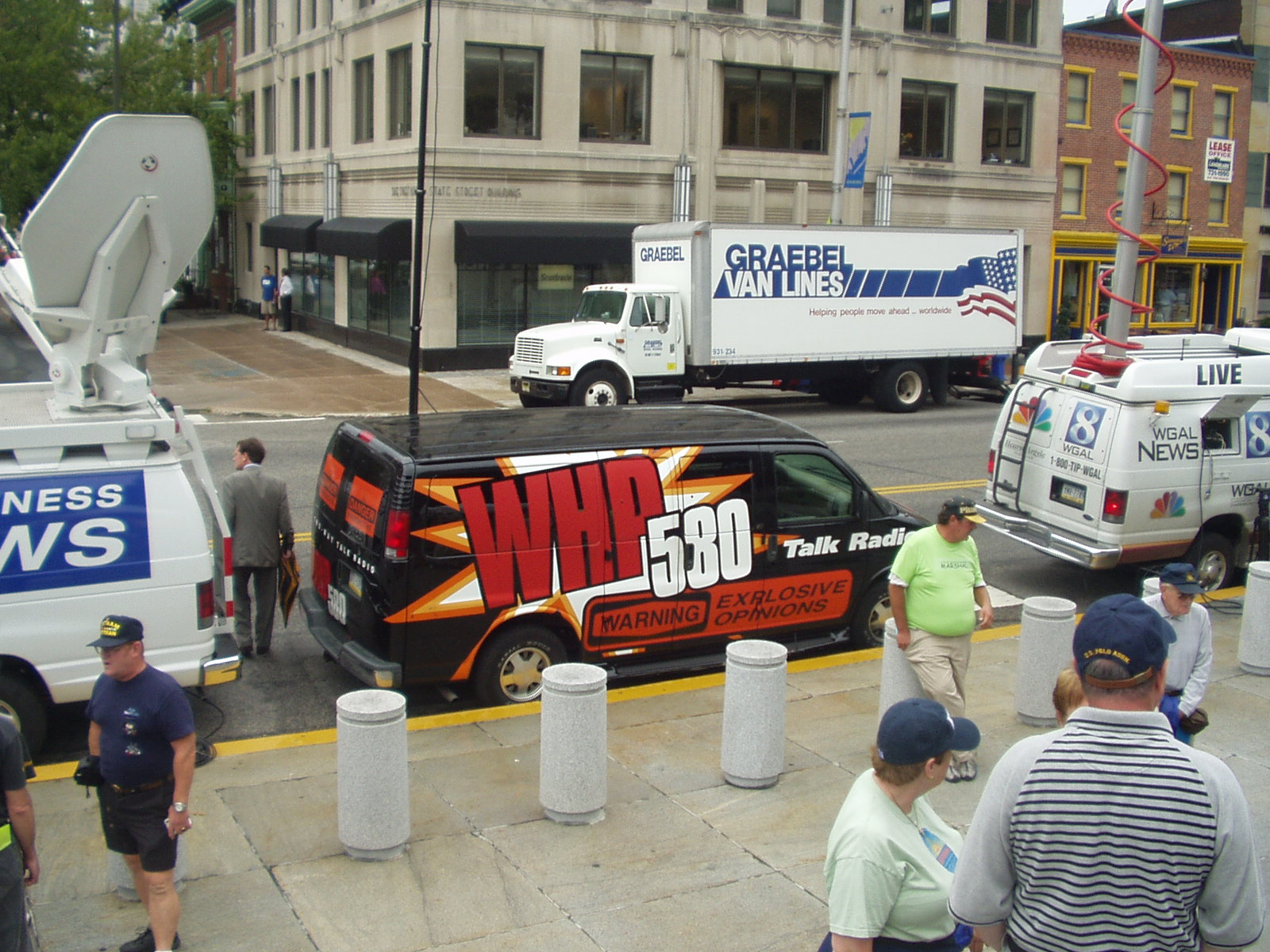 WHP's and other stations' vans at PACleanSweep Rally against the 2005 Pennsylvania General Assembly pay raise.